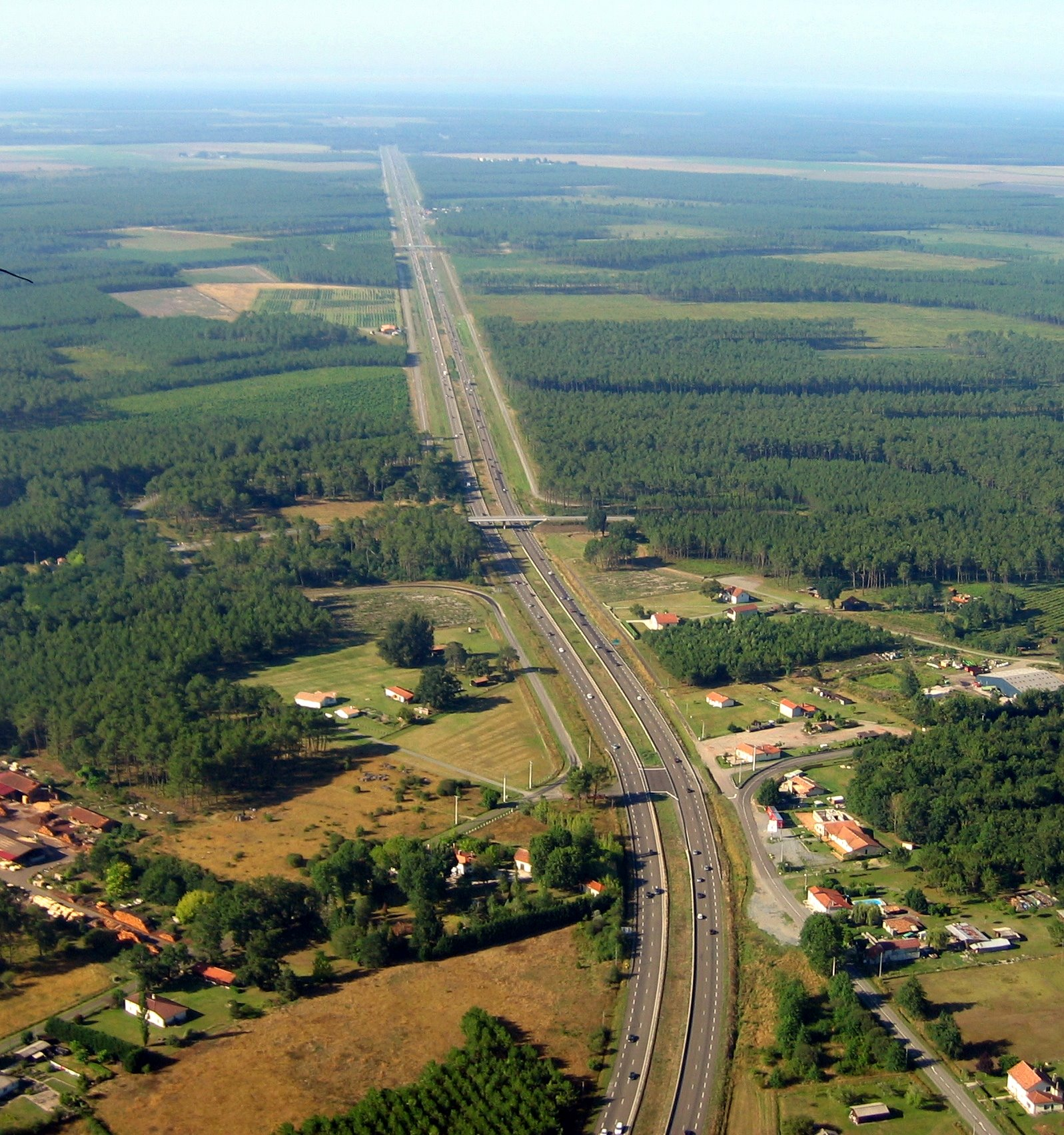 Aerial view of the French motorway A63 (N10) in the north of the Landes département (Forest fragmentation).